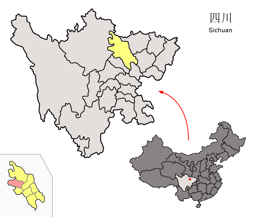 Location of Beichuan County (pink) and Mianyang Prefecture (yellow) within Sichuan province of China Map drawn in october 2007 using various sources, mainly : Sichuan province administrative regions GIS data: 1:1M, County level, 1990 Sichuan Counties map from